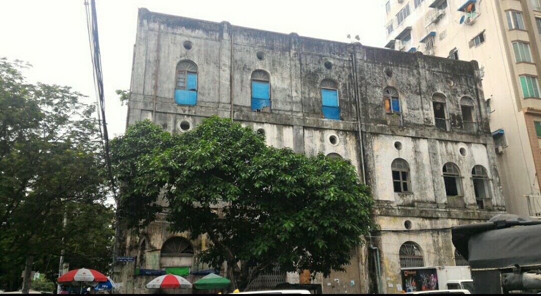 Mahatama Gandhi Memorial Trust Building